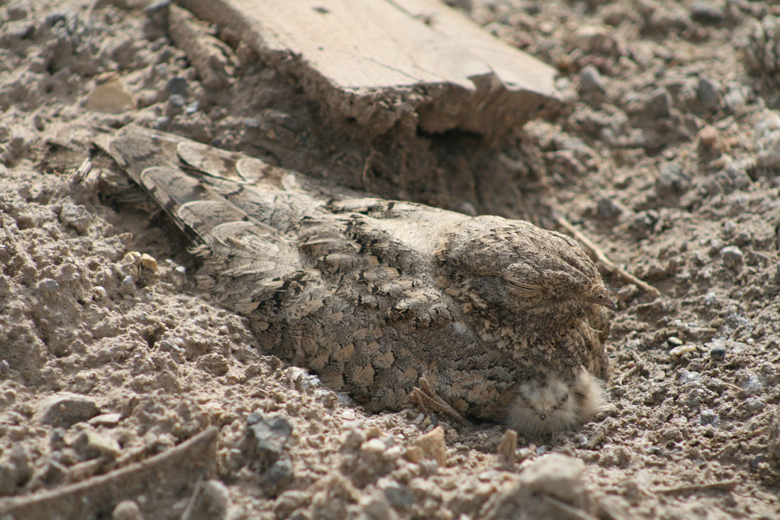 Adult and chick Egyptian Nightjar (Caprimulgus aegyptius) in their natural habitat